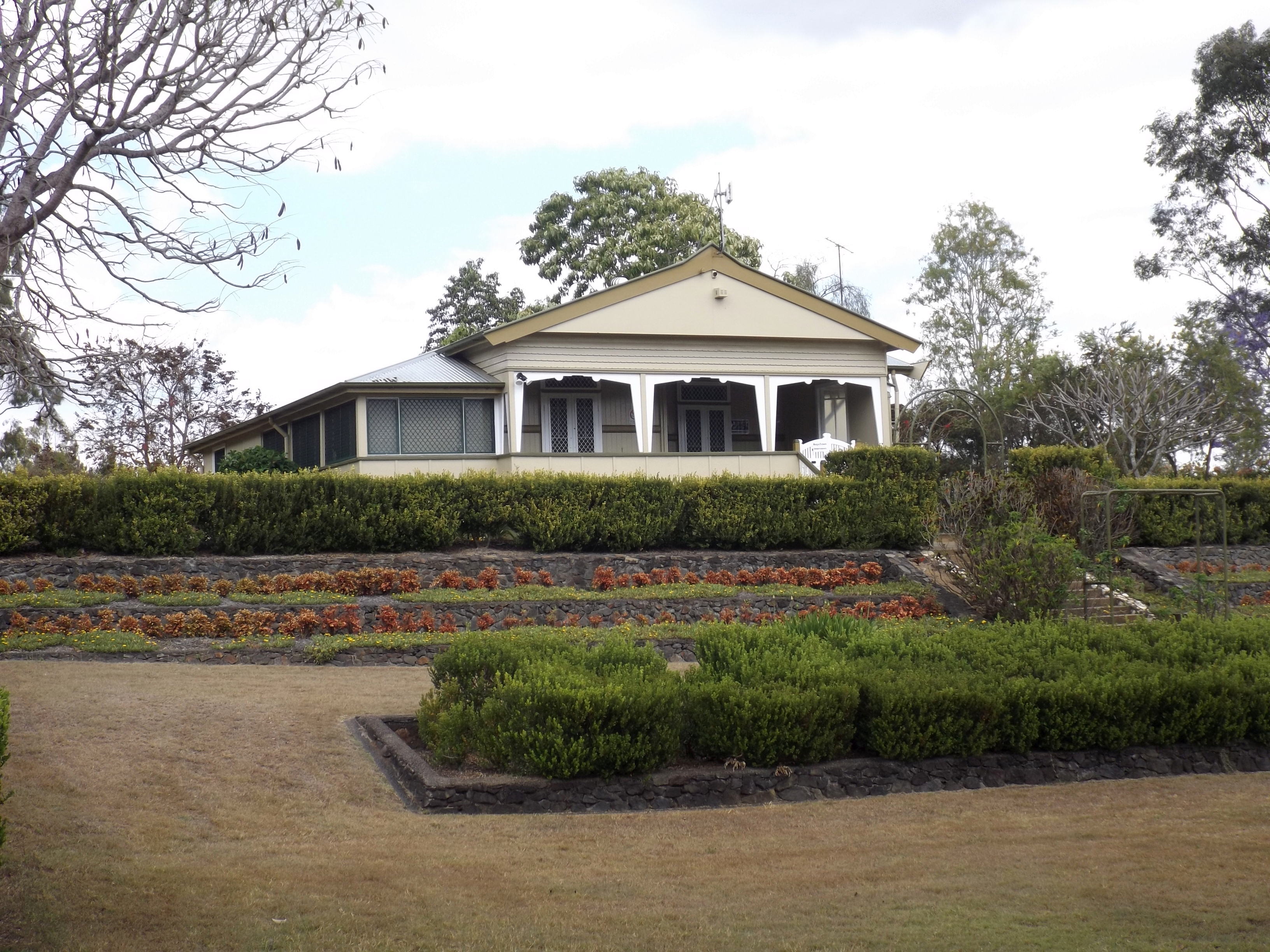 Photo of Curator's House at Queens Park, Ipswich, Queensland, Australia.